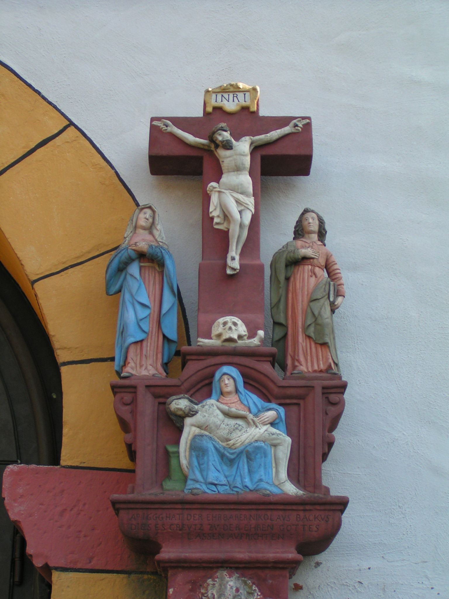 Kapelle Heiligkreuz, Trier, Germany